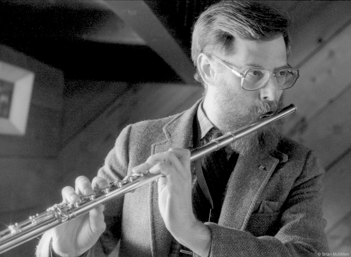 Lew Tabackin at Bach Dancing & Dynamite Society, Half Moon Bay CA 6/3/84. Quartet with Shelly Manne, Monty Budwig & Frank Collette. Photo: Brian McMillen /